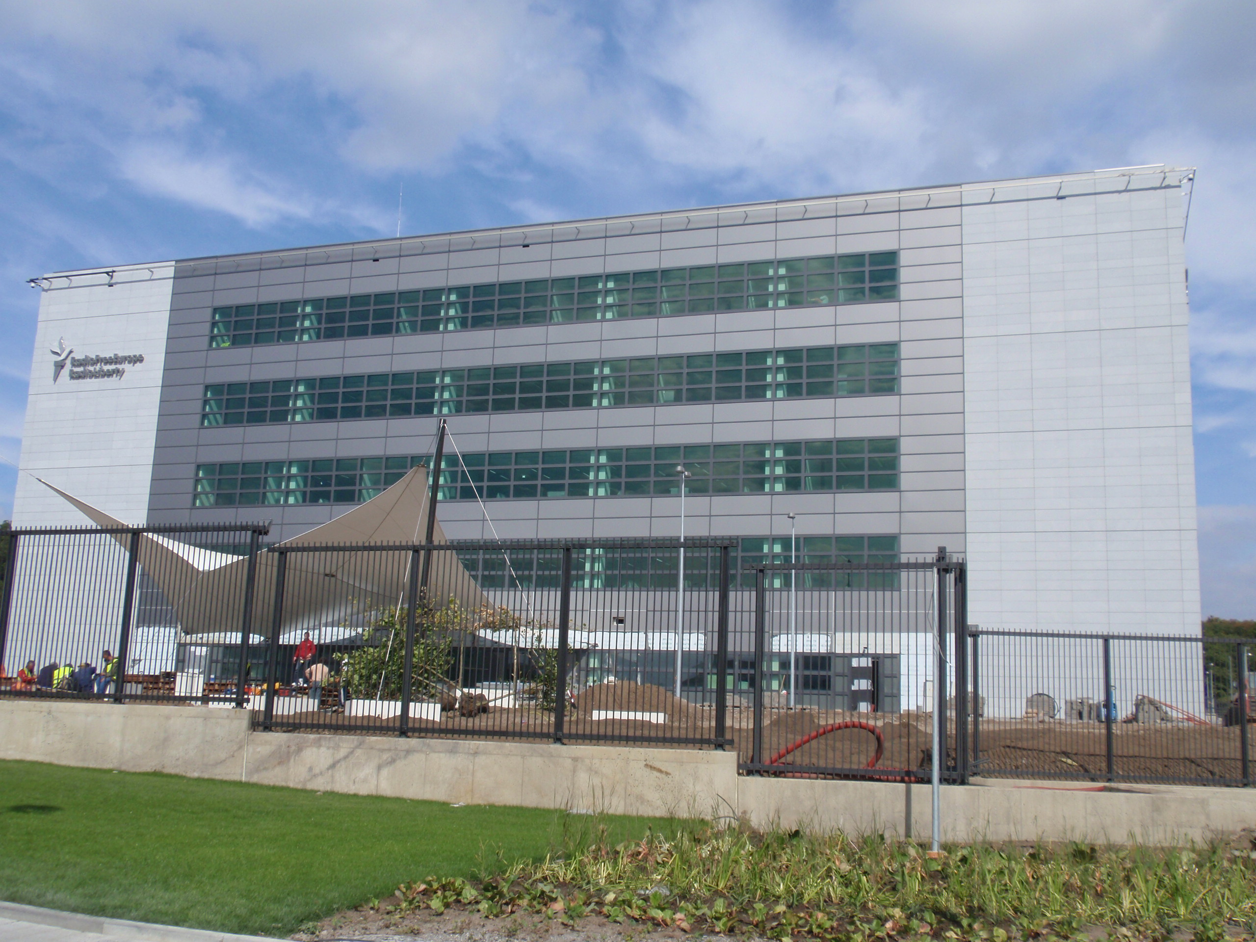 Newly constructed building of Radio Free Europe/Radio Liberty in Prague